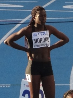 2016 IAAF World U20 Championships in Bydgoszcz, 400m women qualifications